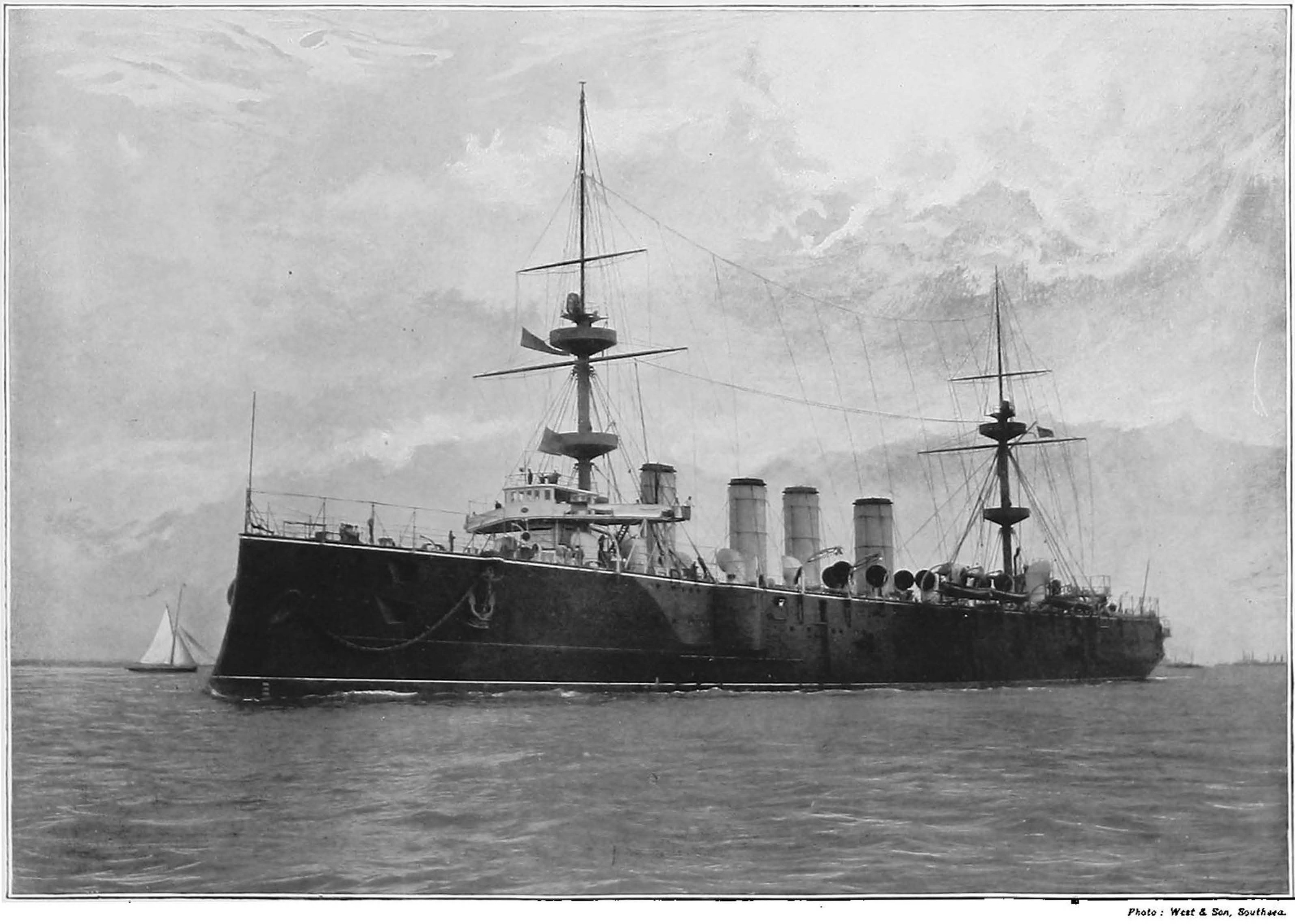 H.M.S. TERRIBLE. This picture represents her Majesty's ship Terrible, which is one of the two largest and most formidable cruisers in the Royal Navy, and is in some respects without a rival among the worships of the world. The Terrible has engines of 35,000 horse-power, supplied with steam from forty-eight Belleville tubulous boilers. Her maximum speed is 23 knots; she can carry 2600 tons of coal, and under easy steam will traverse 25000 miles without re-coaling. She carries two 9.2 breechloading guns. twelve 6-inch 100-pounder quick firing guns, sixteen 12-pounders, and a number of small guns. The larger guns are well protected. This gigantic vessel is 500 feet long, with a beam of 71 feet. She has a crew of over 800 officers and men. She was built on the Clyde, and was completed in 1896.